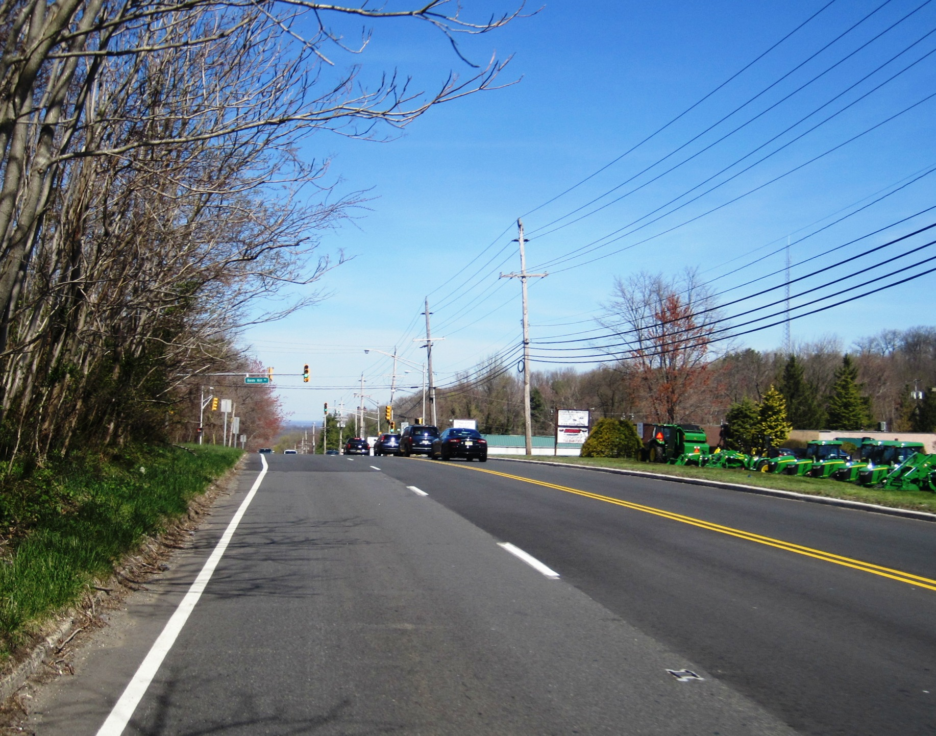 The crest of Beacon Hill along New Jersey Route 34 in Marlboro Township, New Jersey. Photo taken looking north along Route 34 towards its intersection with Reids Hill Road